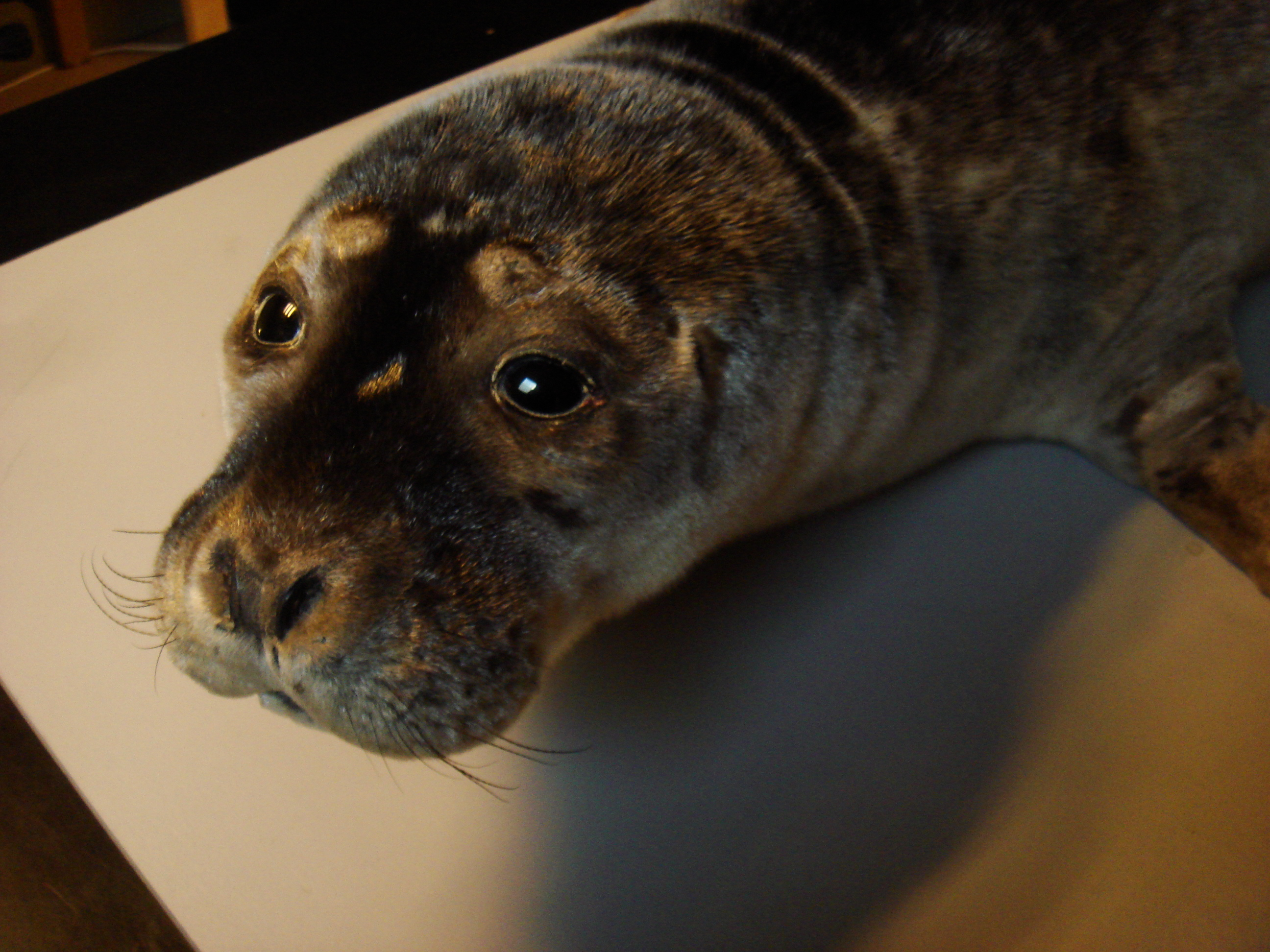 Zoological Museum, Copenhagen. Picture by Stefano Bolognini.